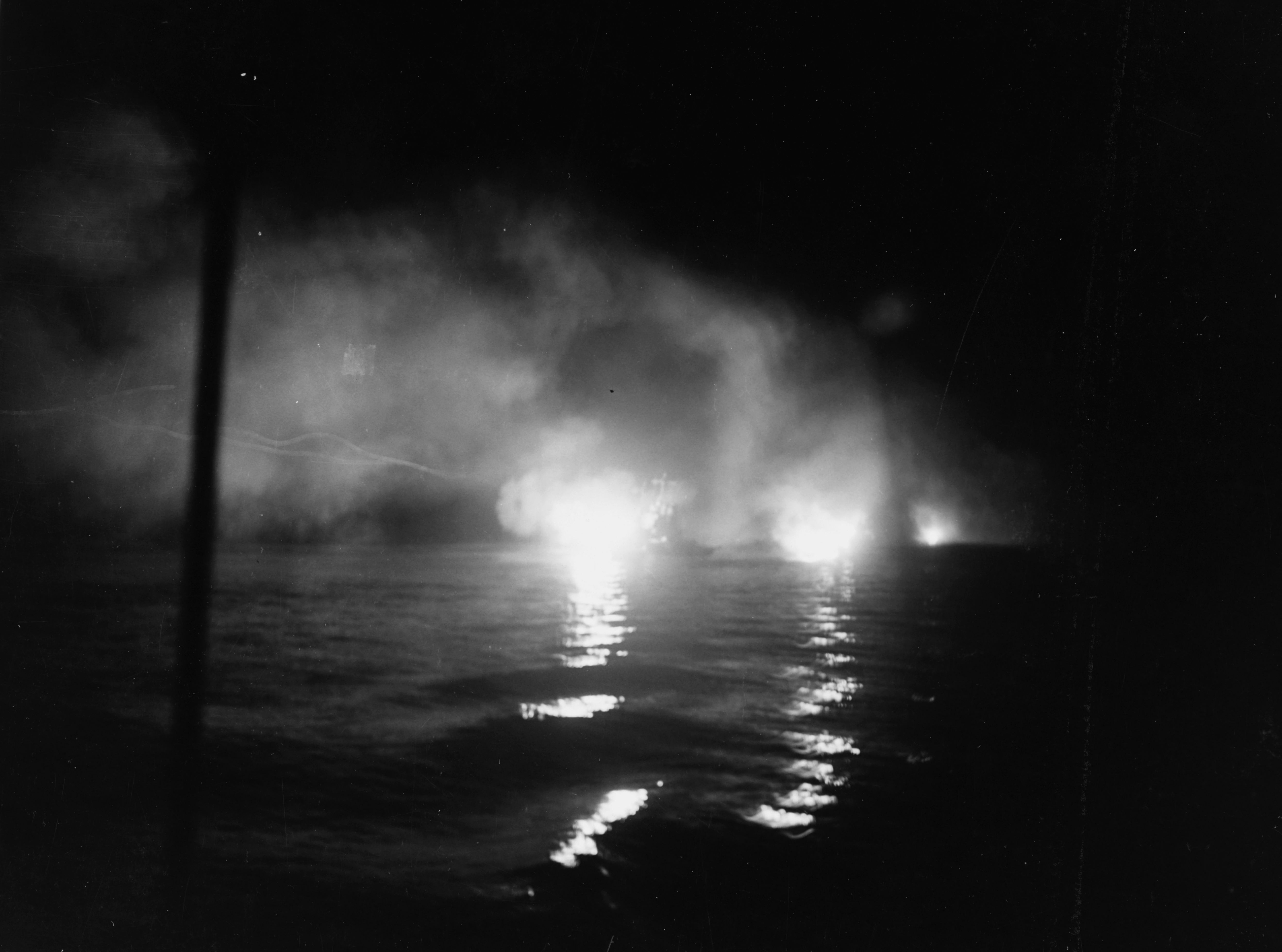 Battle of Kula Gulf, 5-6 July 1943: The U.S. Navy light cruiser USS Helena (CL-50), in the center, firing during the Battle of Kula Gulf, just before she was torpedoed and sunk. The next ship astern is USS St. Louis (CL-49).